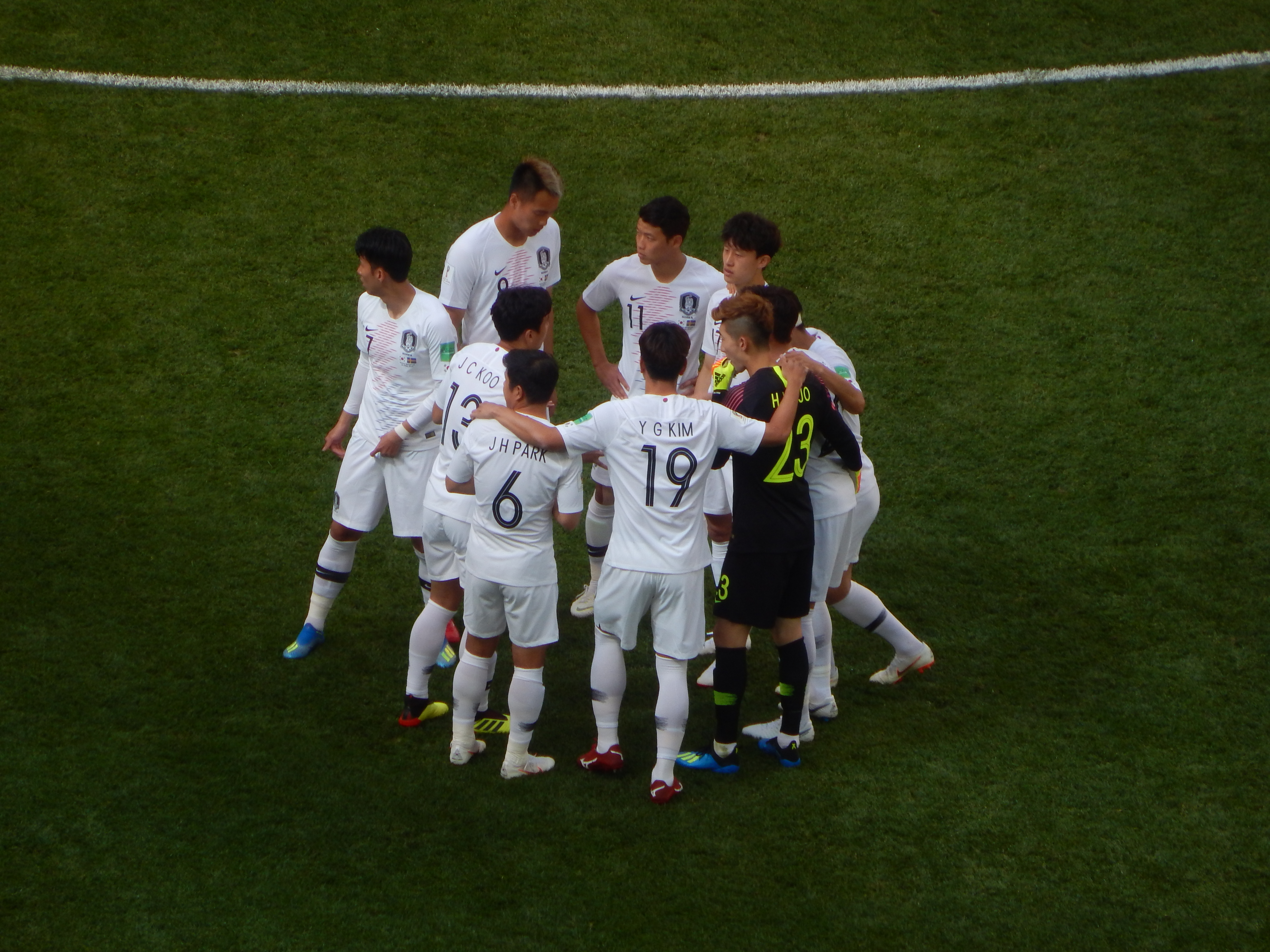 2018 FIFA World Cup - Group F - KOR v SWE